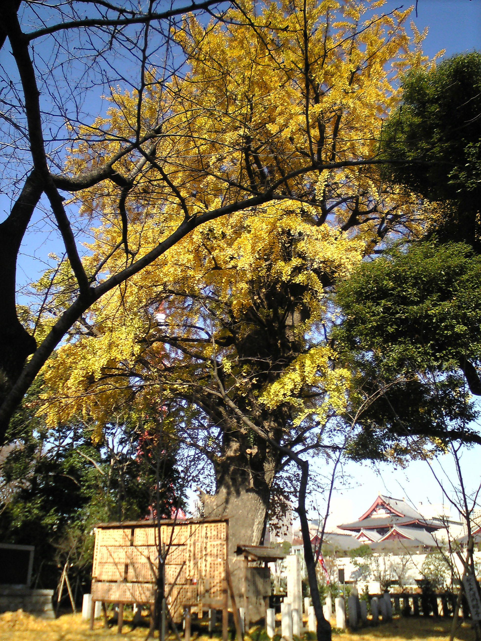 the maidenhair tree of sacred tree